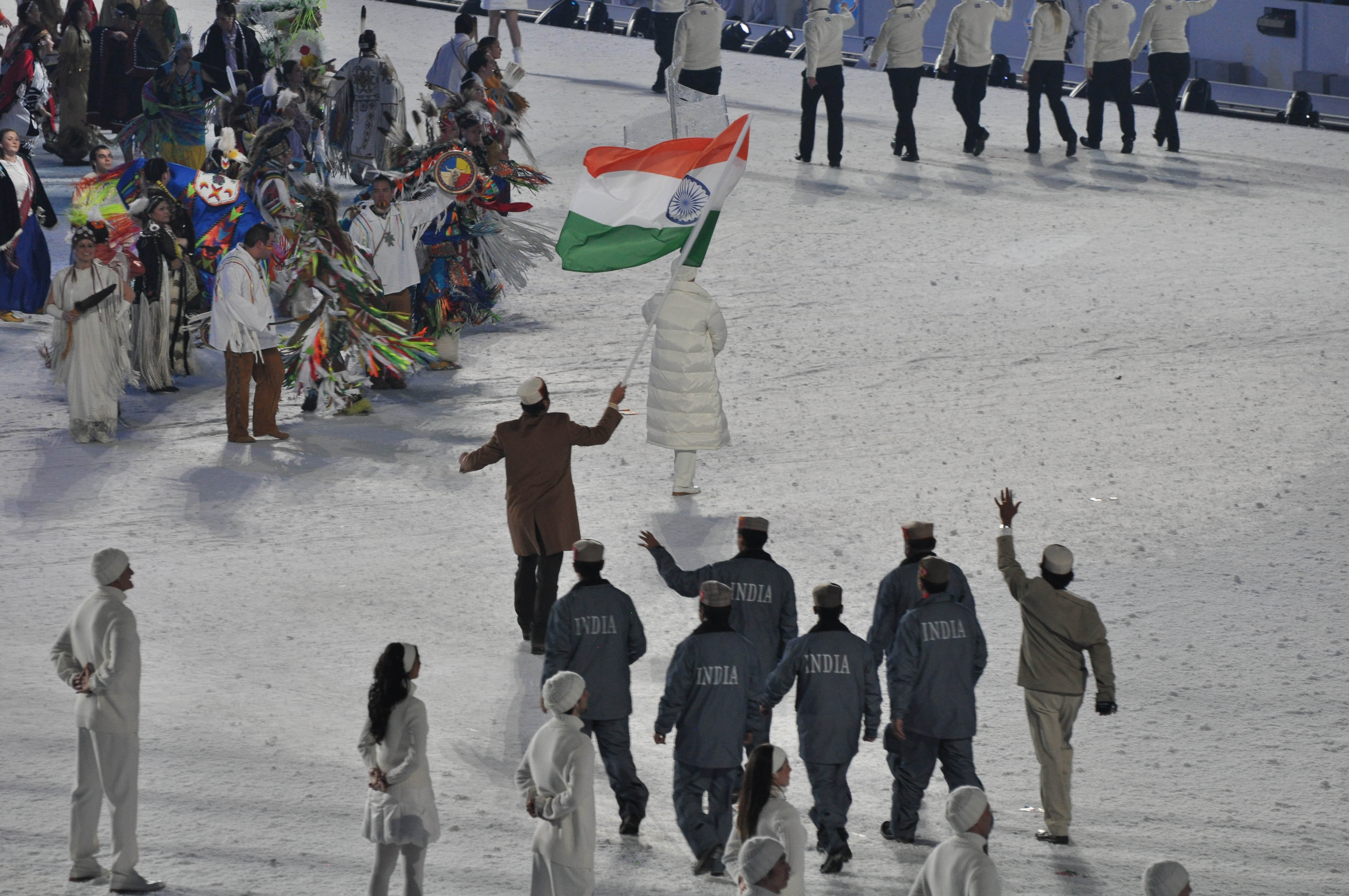 India entering the 2010 Winter Olympics Opening Ceremony in Vancouver.